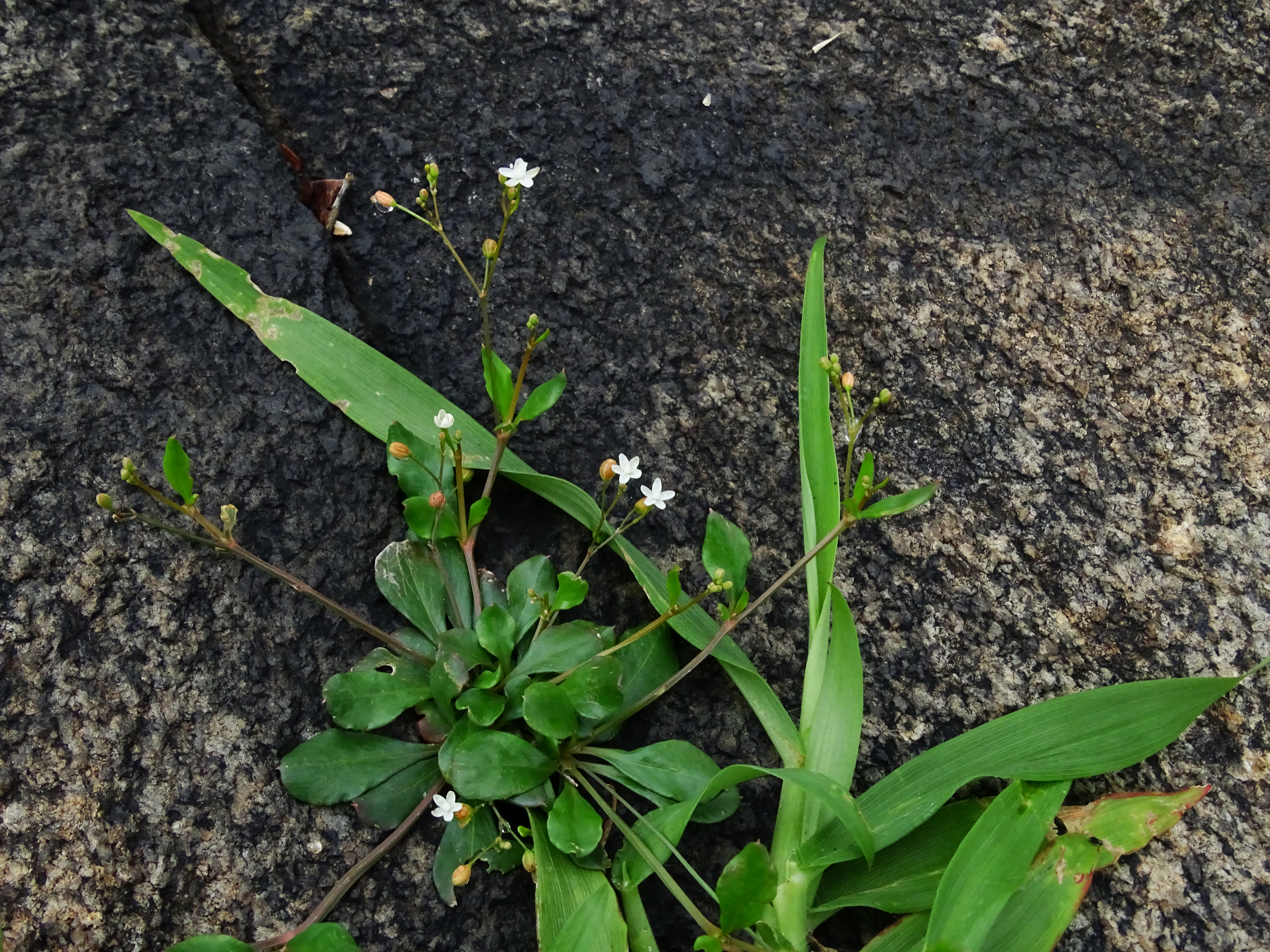 Mollugo nudicaulis - Naked-Stem Carpetweed